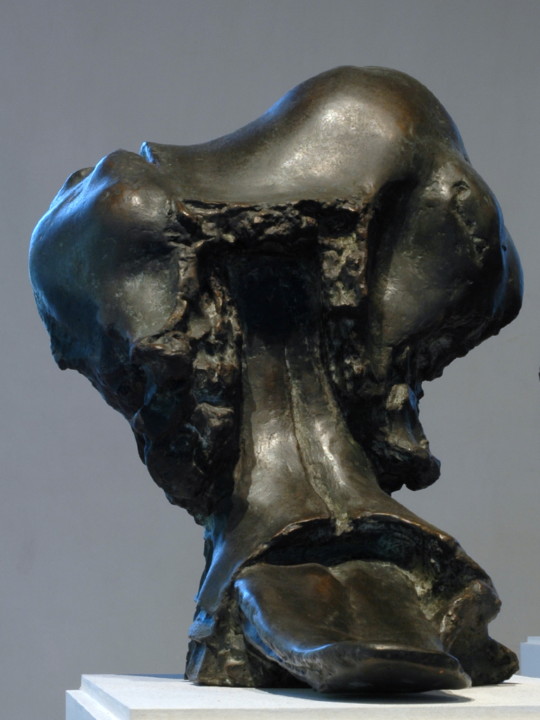 Sculpture by Jan Koblasa, Putting tongue out, bronze (1970)